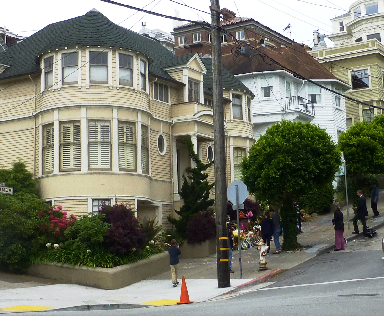 The house used for the exterior shots of the film Mrs. Doubtfire. This photo was taken on August 13, 2014, a few days after the death of Robin Williams, and a make-shift tribute to the actor can be seen on the front steps.